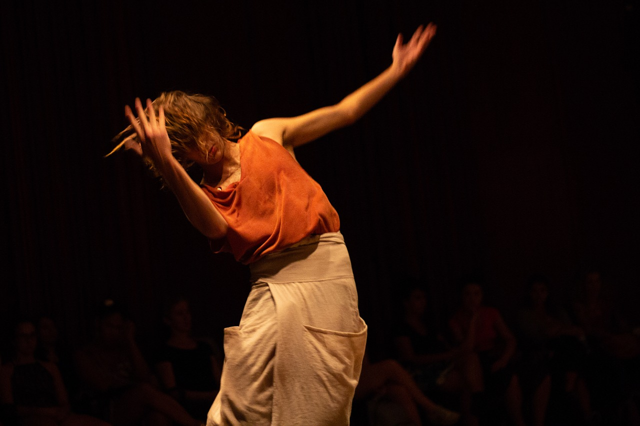 Marina em cena no espetáculo de dança ABISSAL da iNSAiO Cia. de Arte na Oficina Cultural Oswald de Andrade